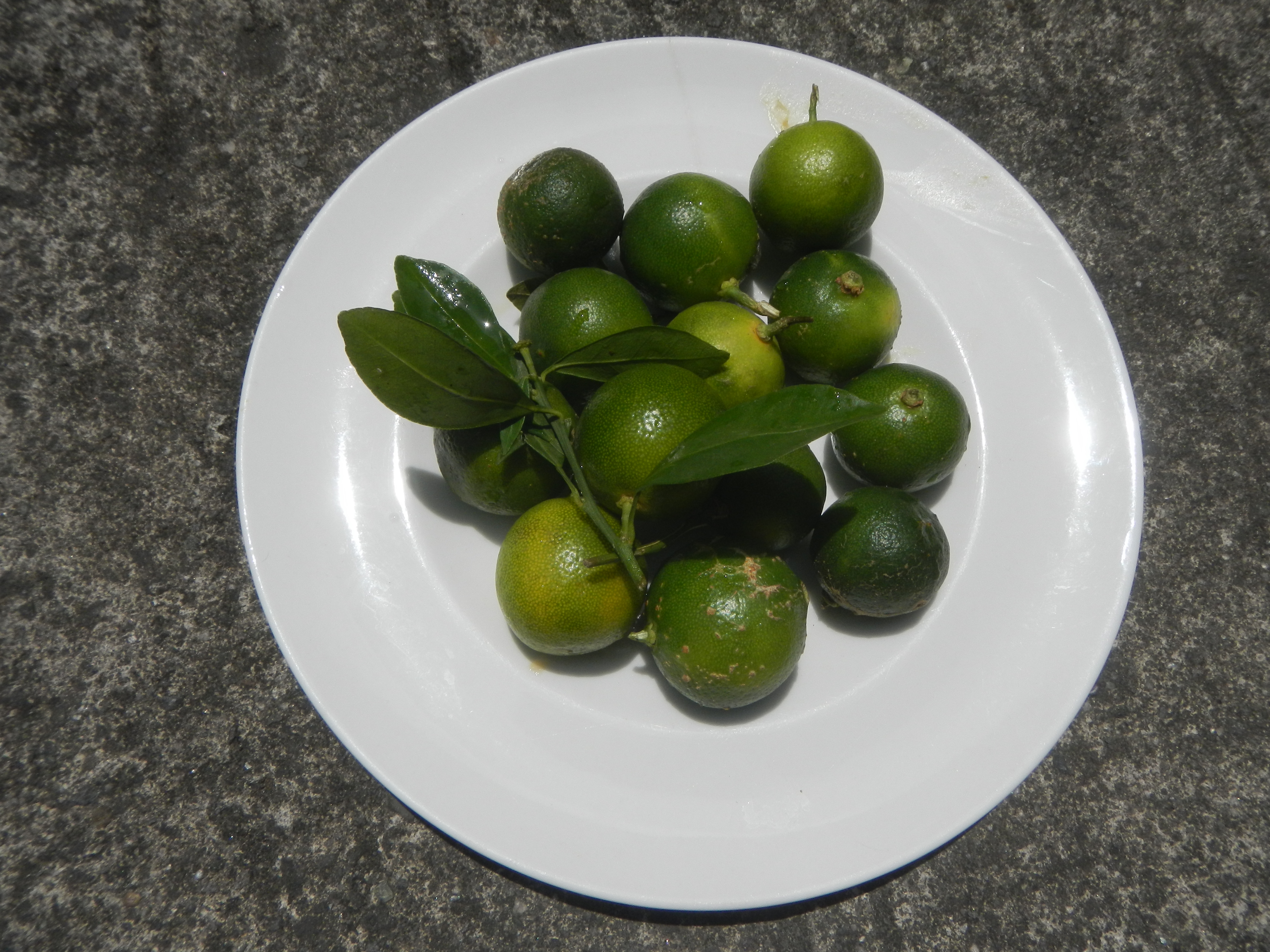 Citrus × microcarpa